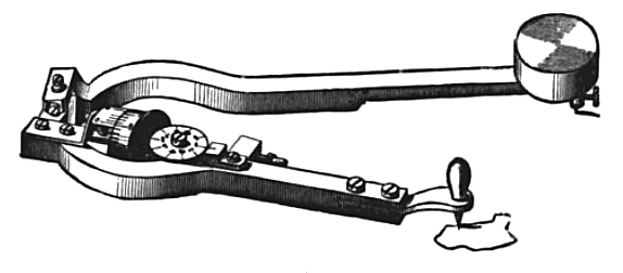 A simple area planimeter with recording wheel